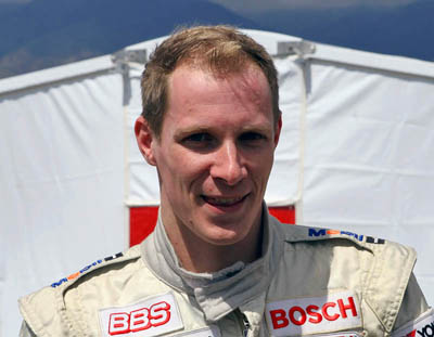 Charles Zwolsman / Champ Car World Series / Pre Season Testing California Speedway 2006